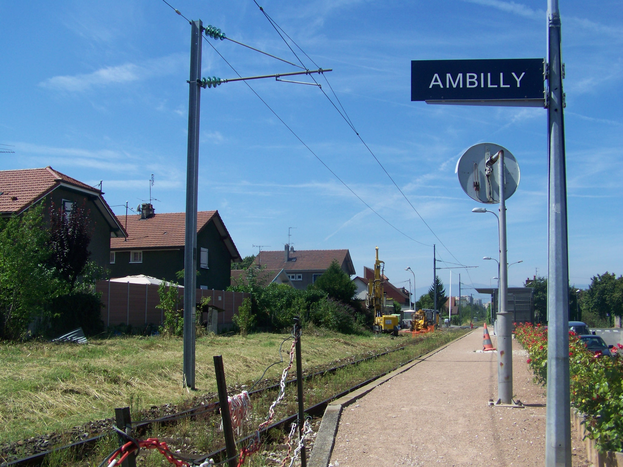 City of Ambilly commuter train station, between Annemasse in France, and Geneva in Switzerland.